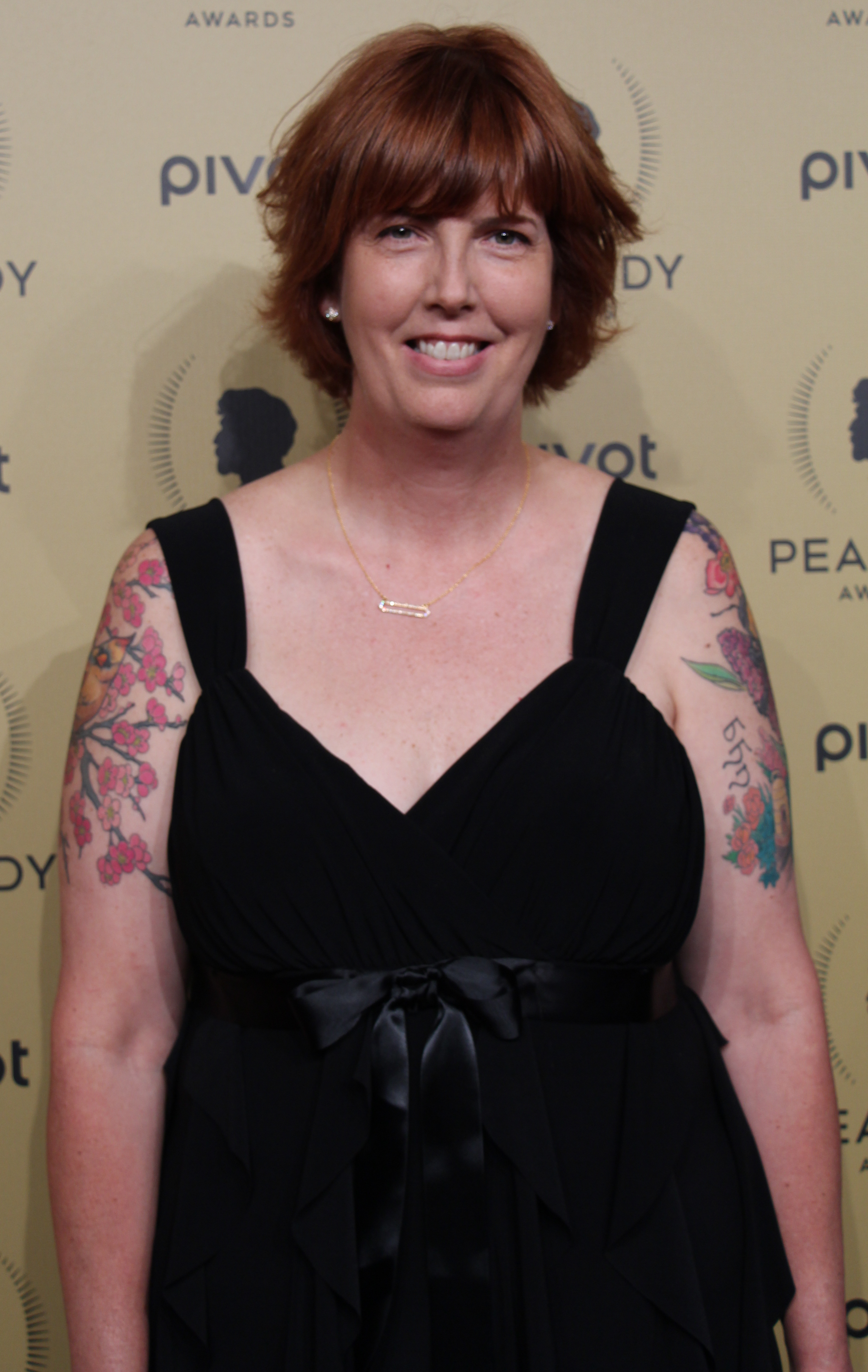 Maureen Ryan, a member of the Peabody Board of Jurors, arrives on the red carpet.